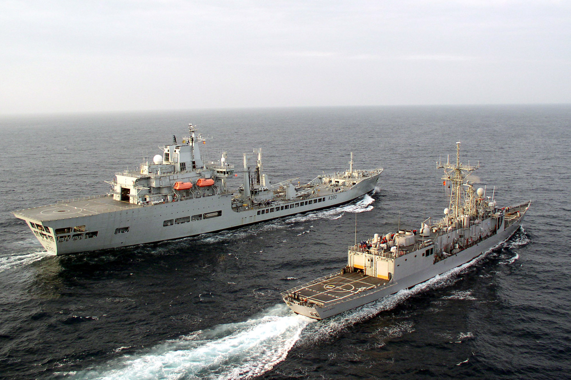 Pacific Ocean (Feb. 8, 2007) — The guided-missile frigate USS Robert G. Bradley (FFG-49), prepares for an underway replenishment (UNREP), with the Royal Fleet Auxiliary fast fleet tanker RFA Wave Ruler (A390). Bradley received 20,000 gallons of fuel to continue Counter-Narcoterrorism (CNT) operations. Bradley is deployed under operational control of U.S. Naval Forces Southern Command as part of a Joint/Inter-Agency Task force conducting CNT operations in the Caribbean and Eastern Pacific.